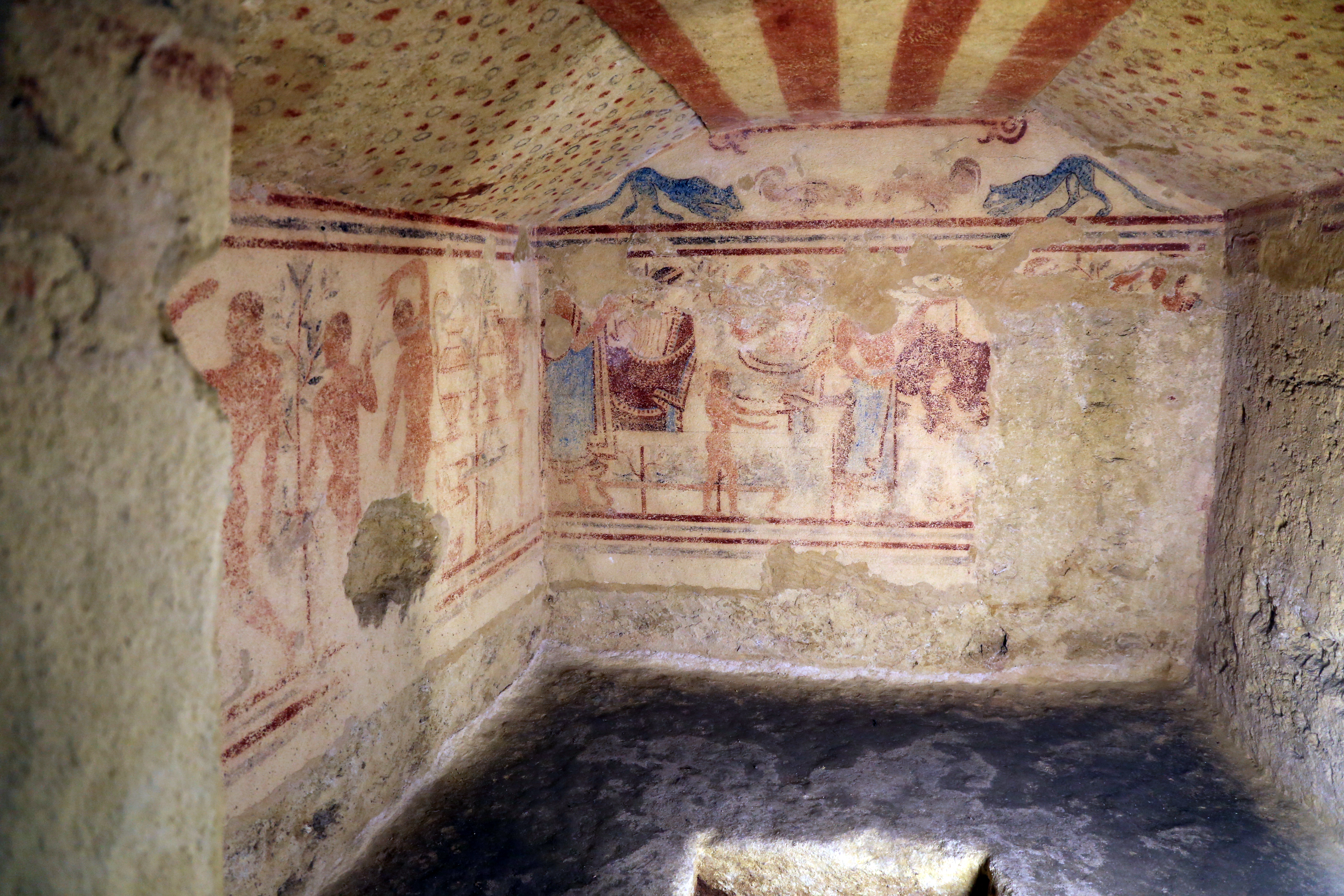 Necropoli dei Monterozzi (Tarquinia)